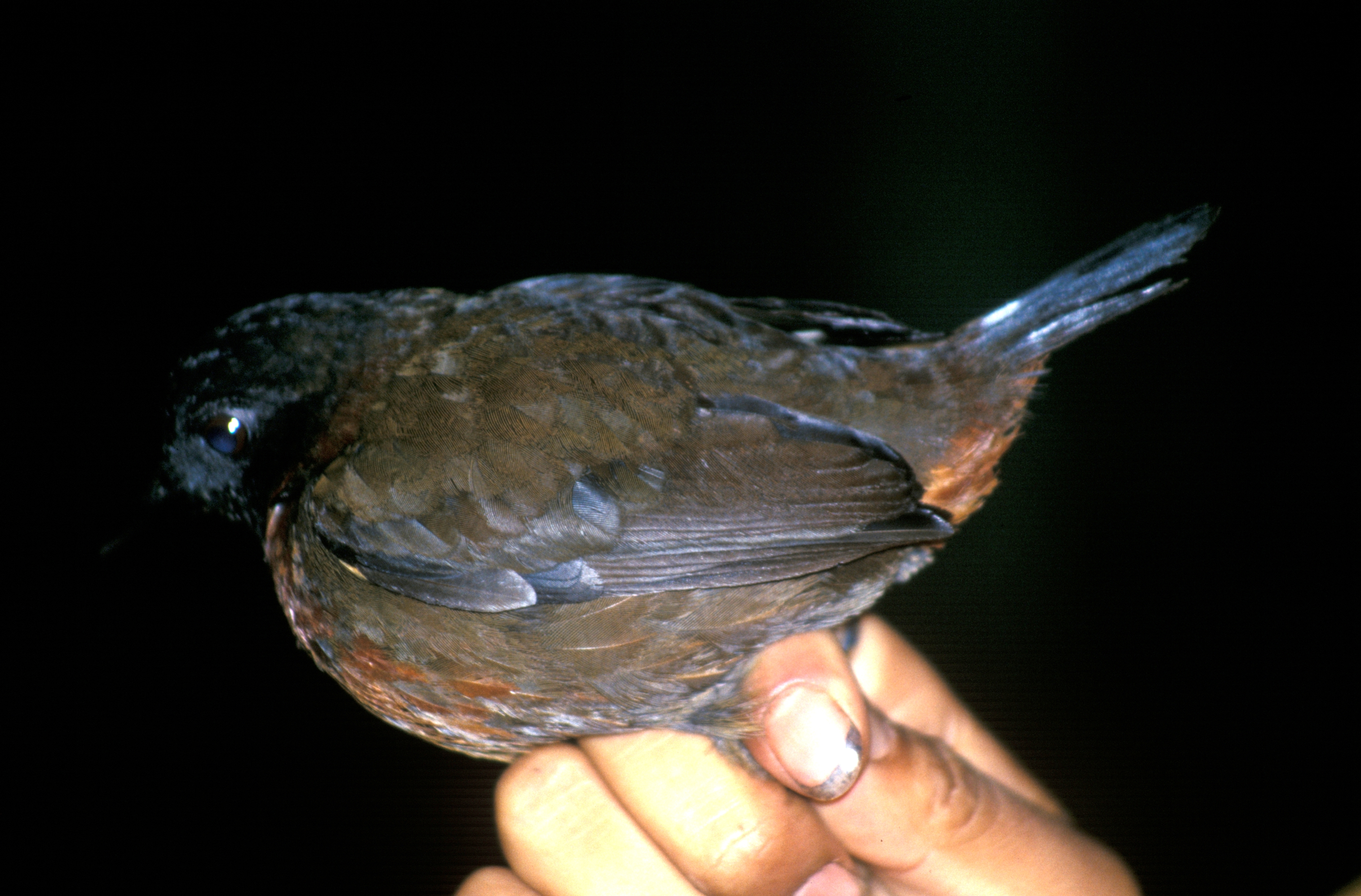 Rufous-breasted Antthrush (Formicarius rufipectus) from Ecuador